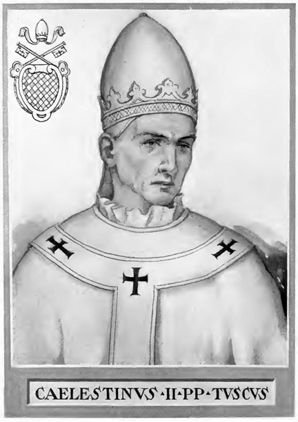 This illustration is from The Lives and Times of the Popes by Chevalier Artaud de Montor, New York: The Catholic Publication Society of America, 1911. It was originally published in 1842.